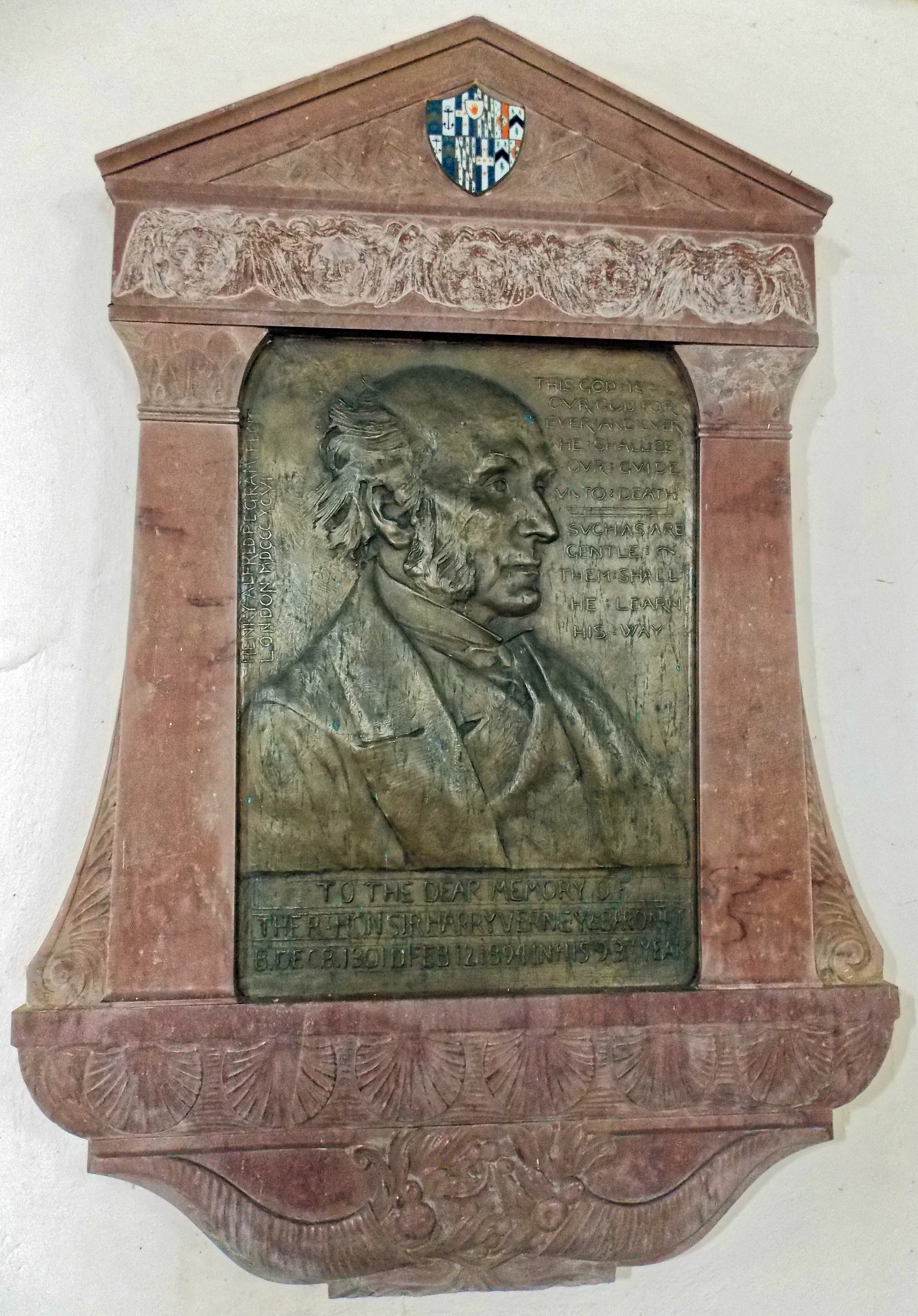 Wall stone and brass tablet memorial monument to Sir Harry Verney, Baronet (1801–94), on the north wall of the nave of the parish Church of All Saints, Middle Claydon, Buckinghamshire, England.Software: JPEG file optimized and/or cropped and/or spun with DxO OpticsPro 10 Elite and Adobe Photoshop CS2.